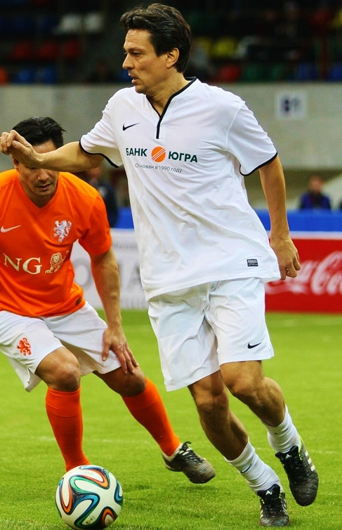 Jari Litmanen